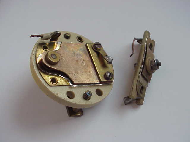 Quetscher, a special form of trimming capacitor